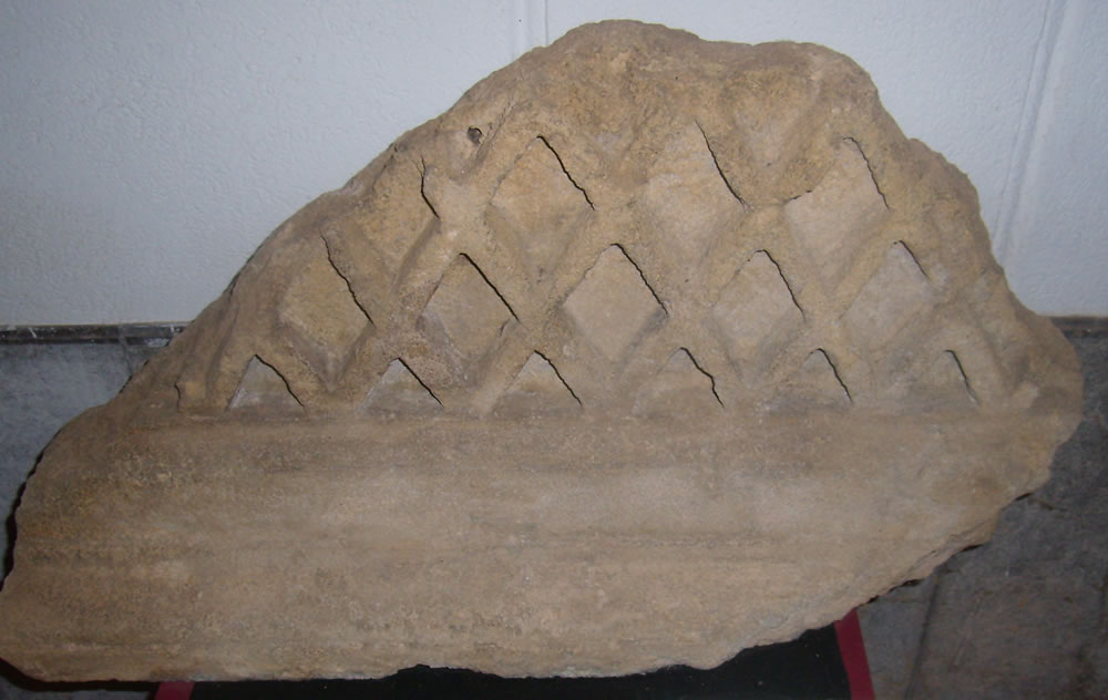 Architectural element from the Hellenistic stoa at Solunto, Sicily